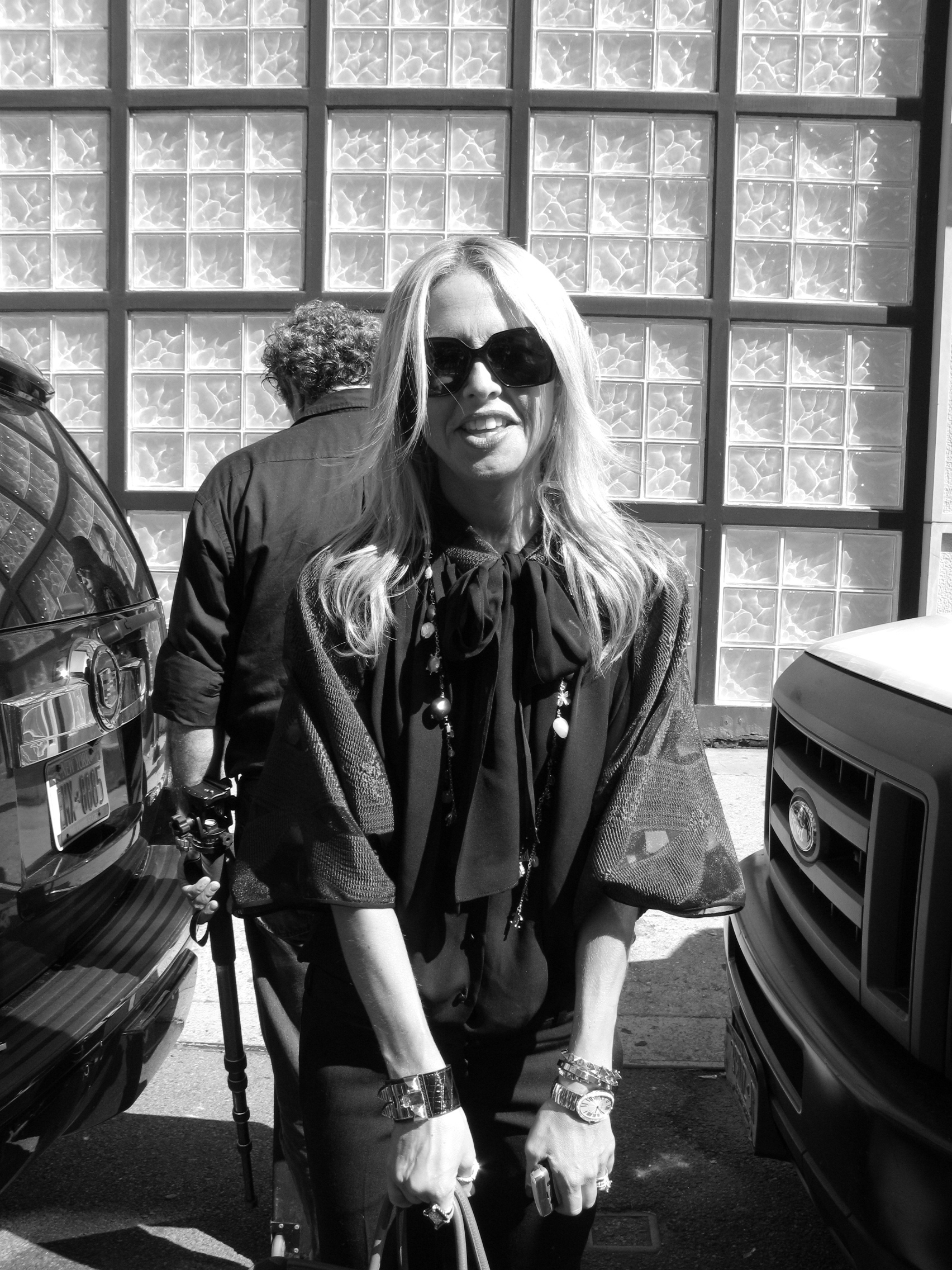 Rachel was so cool to pose for this photo, I only wish I had taken a better picture. She looked beautiful.